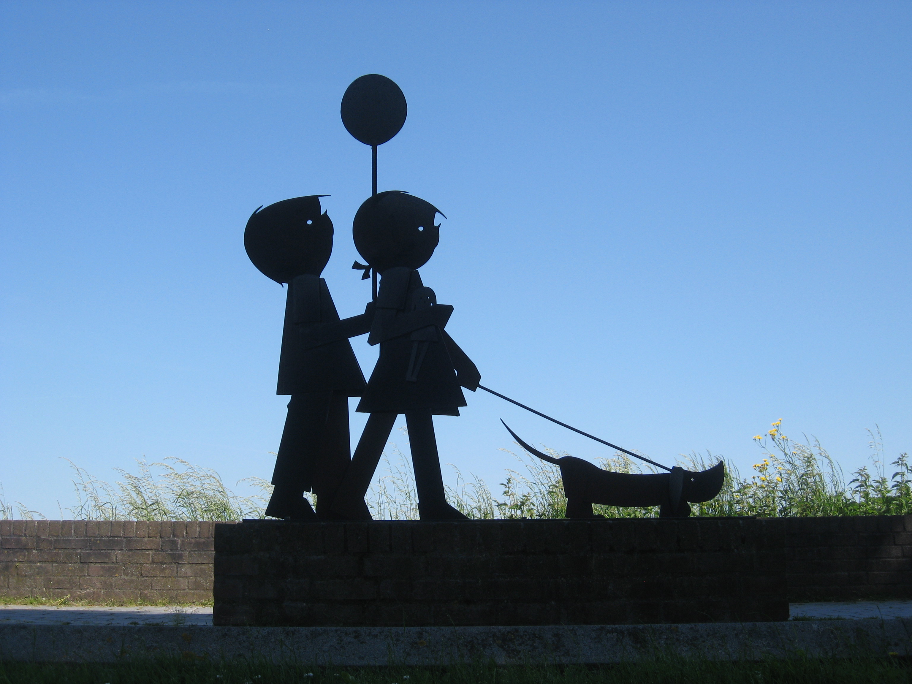 Jip and Janneke and Takkie